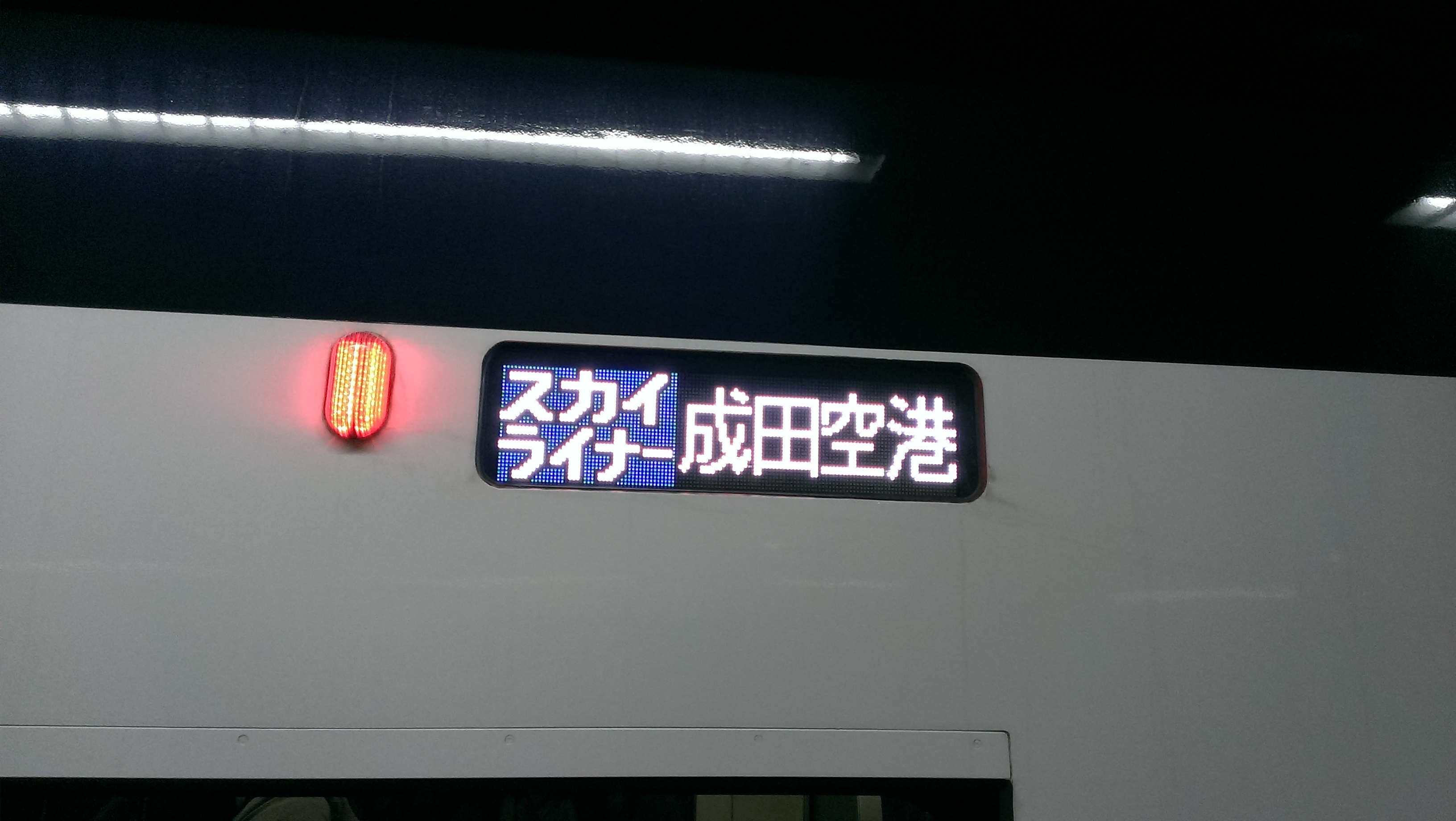 LED-type destination signs(destination indicator) on Skyliner(bound for Narita Airport).